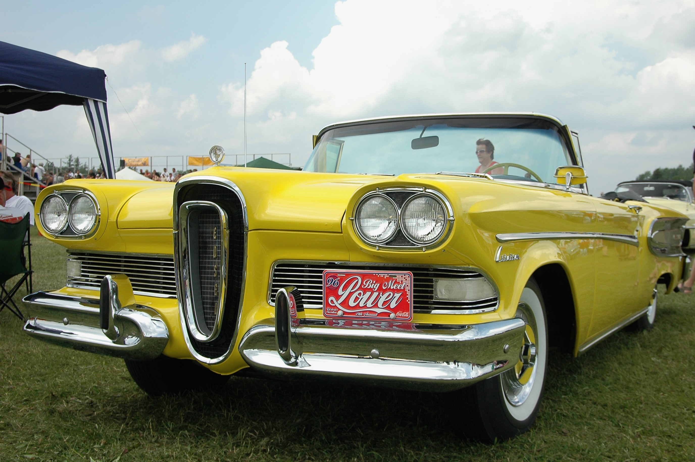 USA vehicle